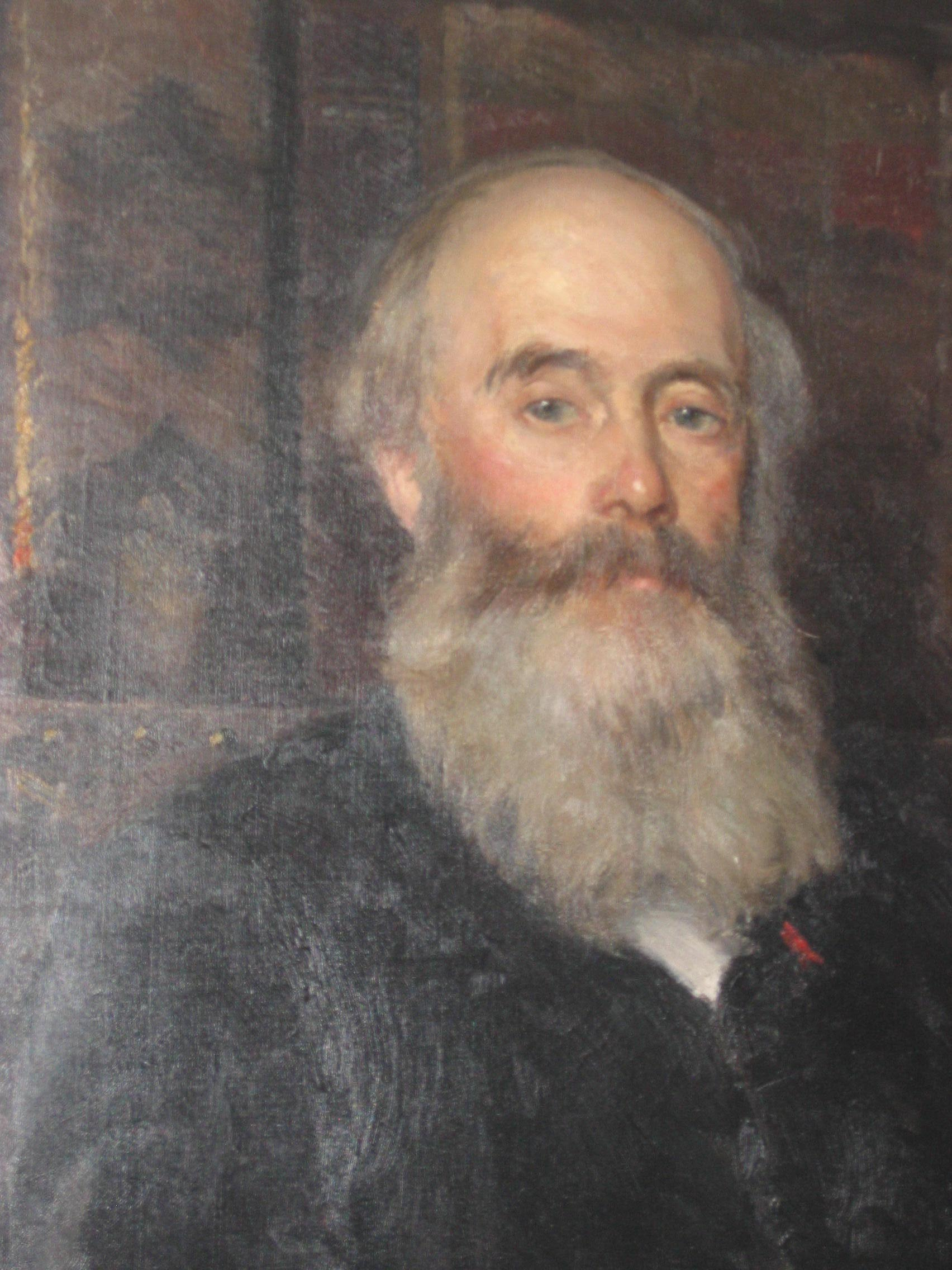 Contemporary portrait in oils of Eugène Rimmel (1820-1887). Painter unknown.